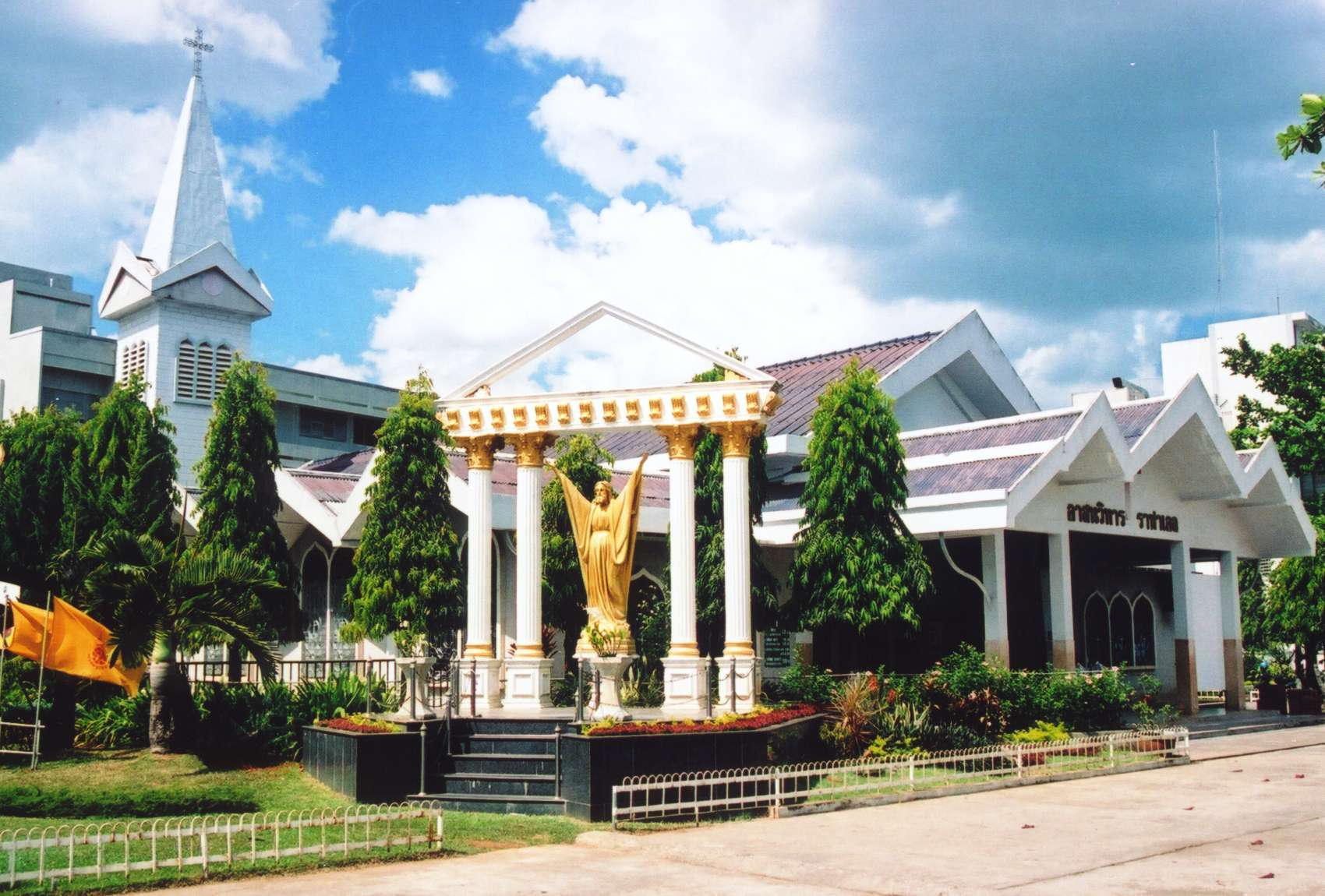 Roman Catholic St. Raphael Cathedral (อาสนวิหารอัครเทวดาราฟาแอล) in Surat Thani, Thailand. Photo taken by User:Ahoerstemeier of January 21 2005. See also: Website of the parish St. Raphael